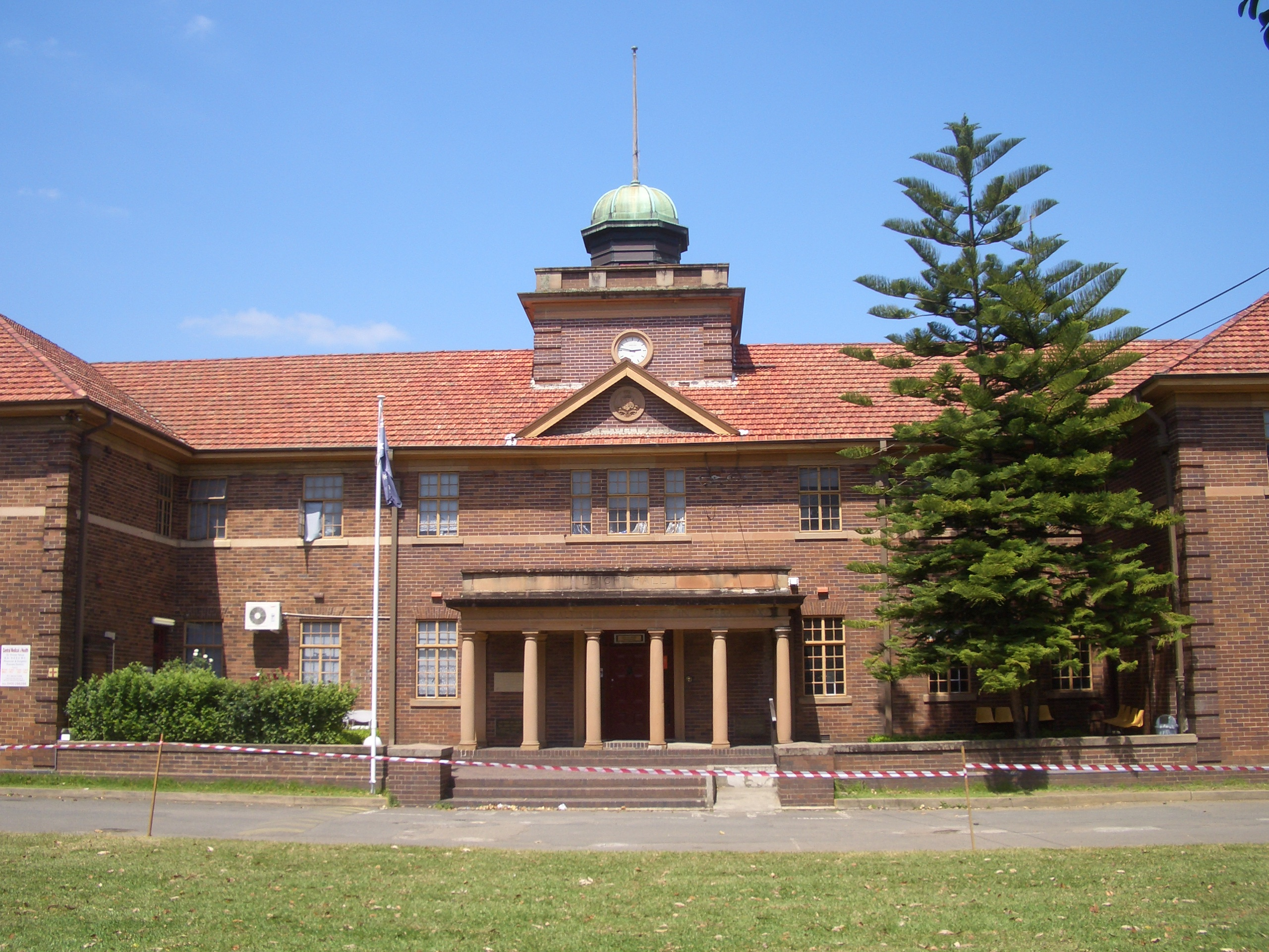 South Strathfield Theological College, Sydney